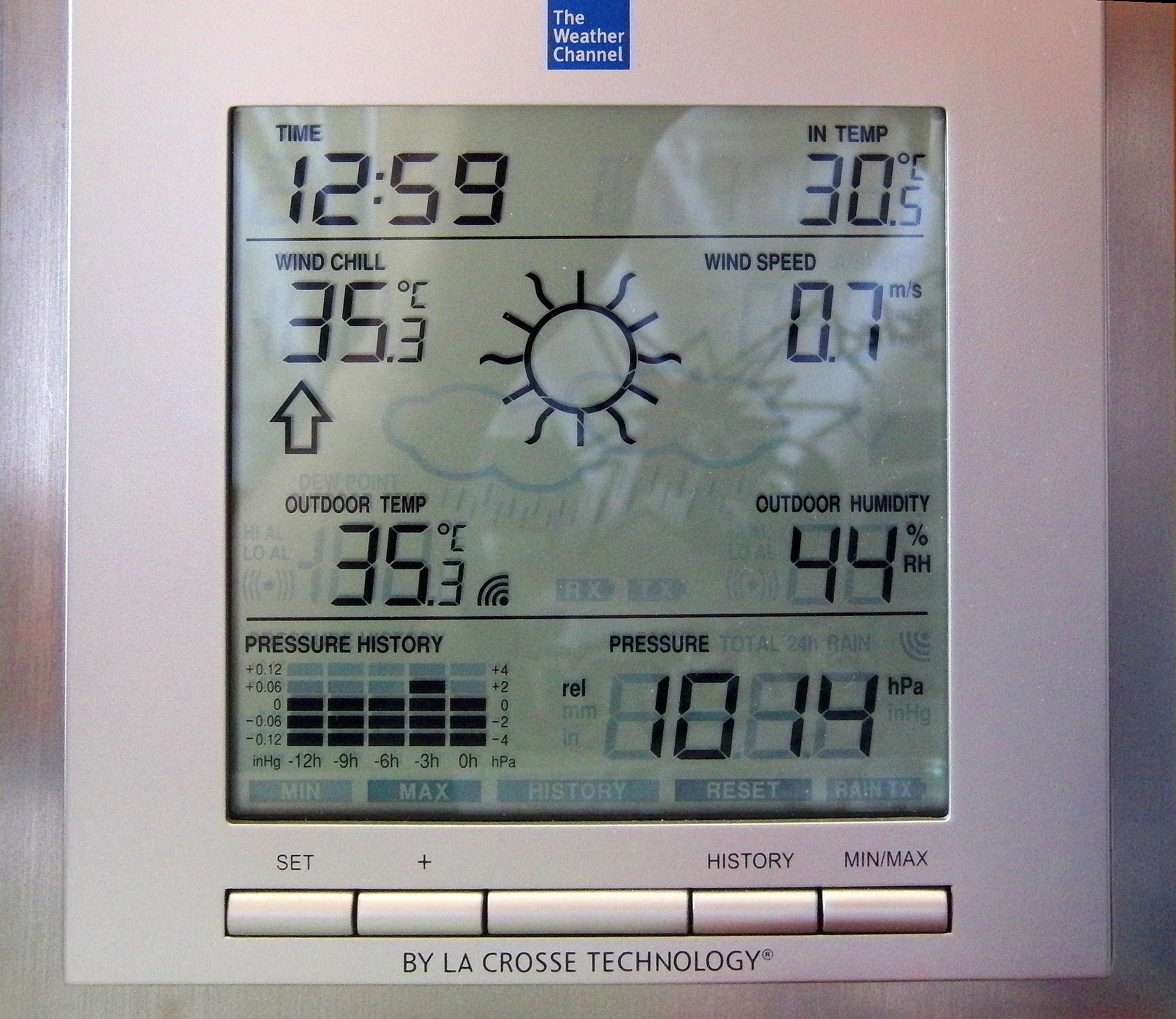 personal weather center